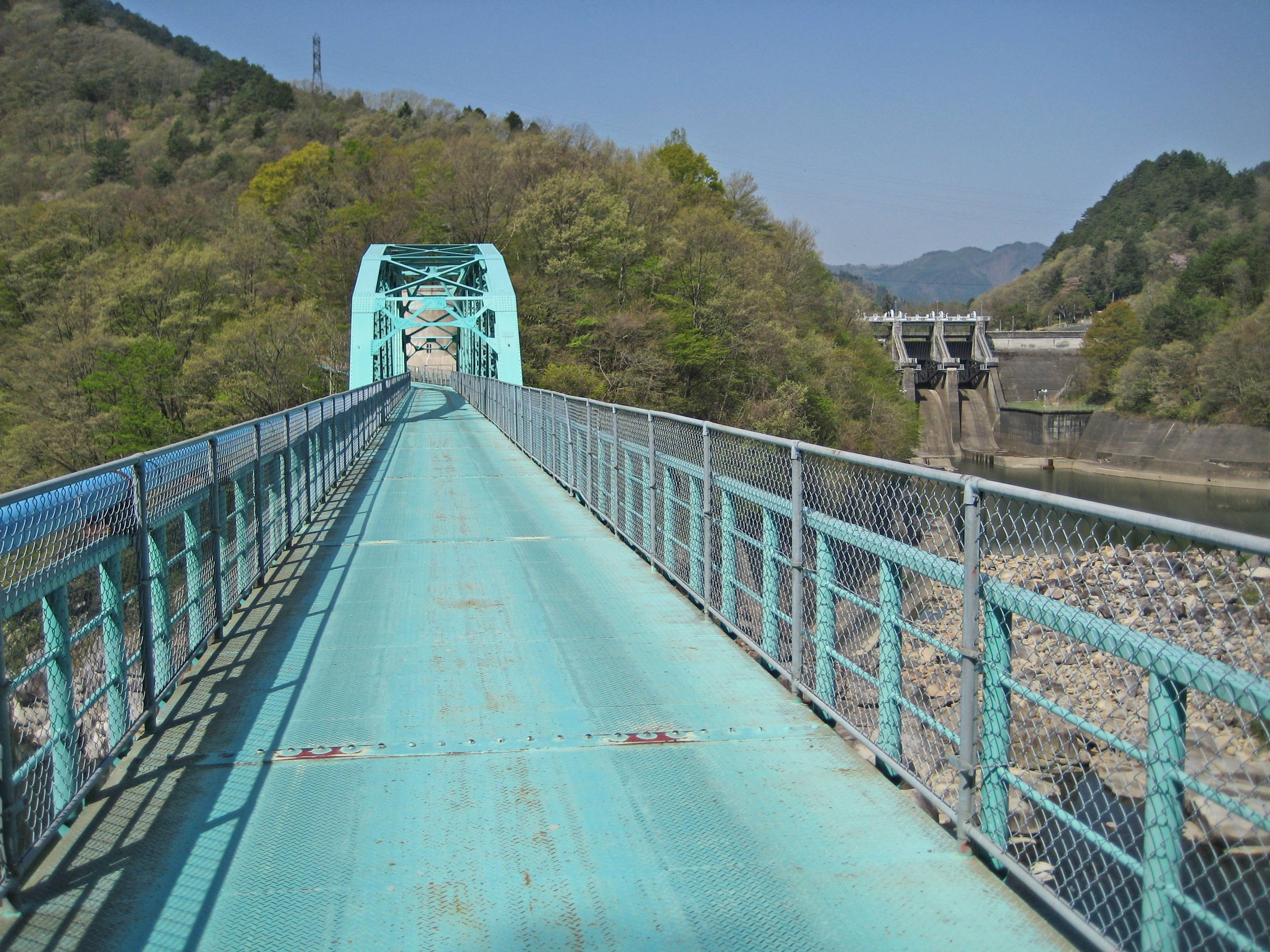 Kiso Dam and aqueduct.